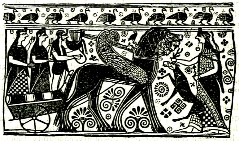 A vase painting represents Apollo in a chariot drawn by winged horses, playing on the lyre, and accompanied by a pair of Muses, meeting his sister Artemis. It is notable that Apollo is bearded, and that Artemis holds her stag by the horns, much in the manner of the deities on Babylonian cylinders; in the other hand she carries an arrow; above is a line of water birds.